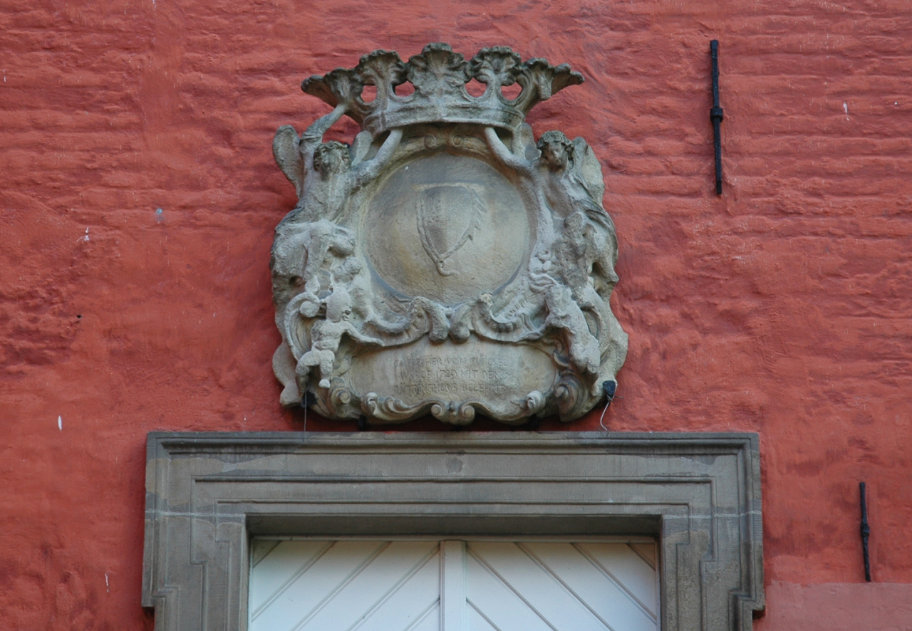 Haus Lüttinghof in Gelsenkirchen-Hassel, coat of arms above the entrance